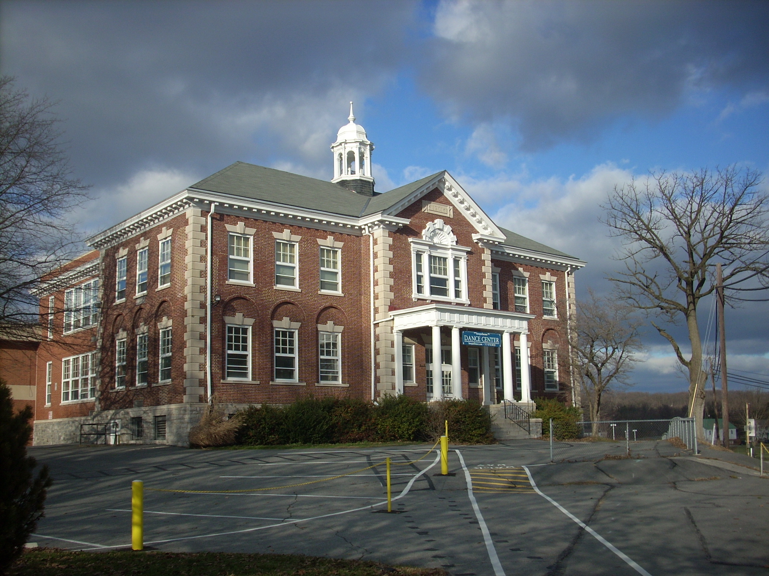 This is just the front of the building. It is on College Avenue which leads me to guess that it was once a college building. It clearly later evolved into a high school. Now it is a community center, library, and dance studio among other uses